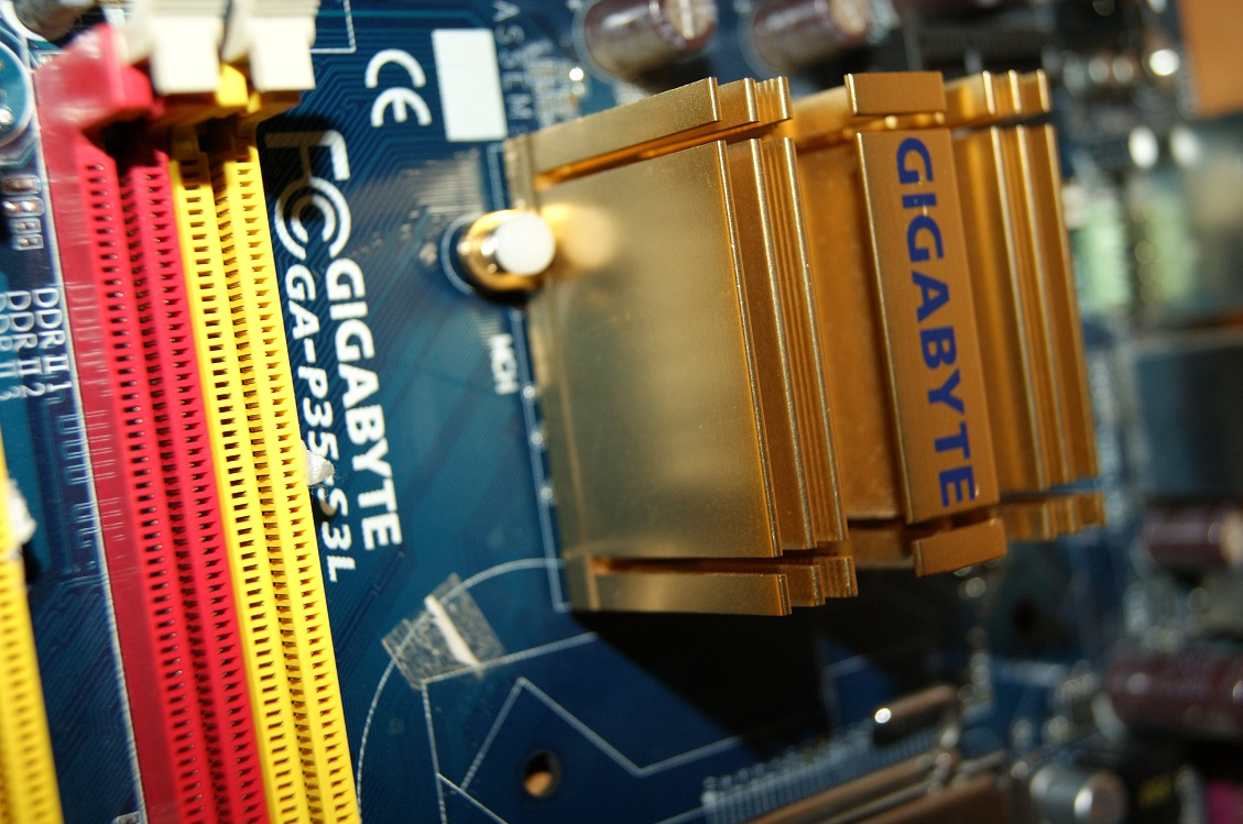 Радиатор на материнской плате